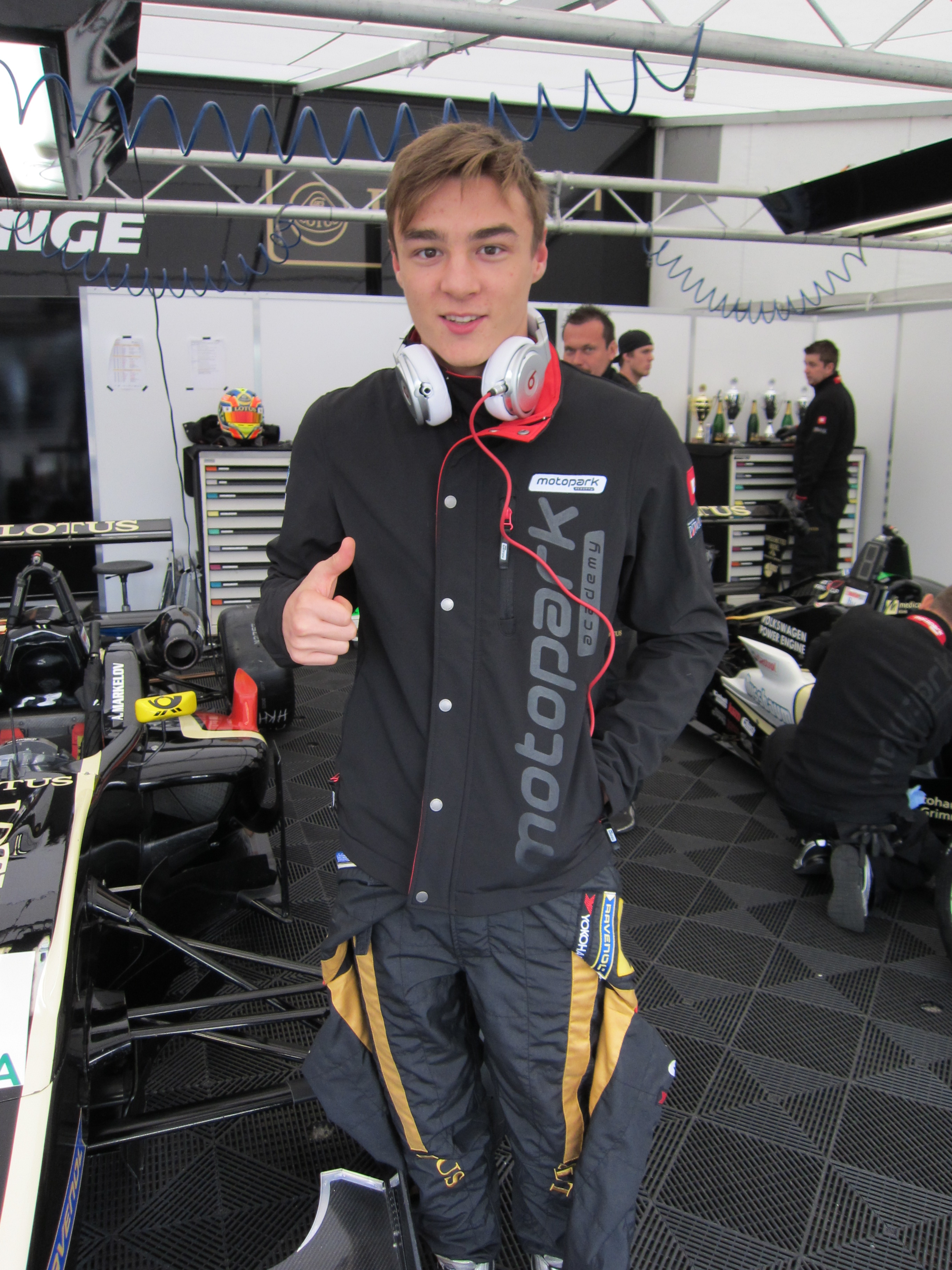 Artem Markelov: the photo was taken during 2013's ADAC GT Masters race weekend at Hockenheim